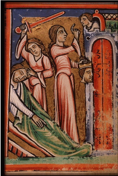 The Hague, KB, 76 F 5 fol. 43r sc. 2B